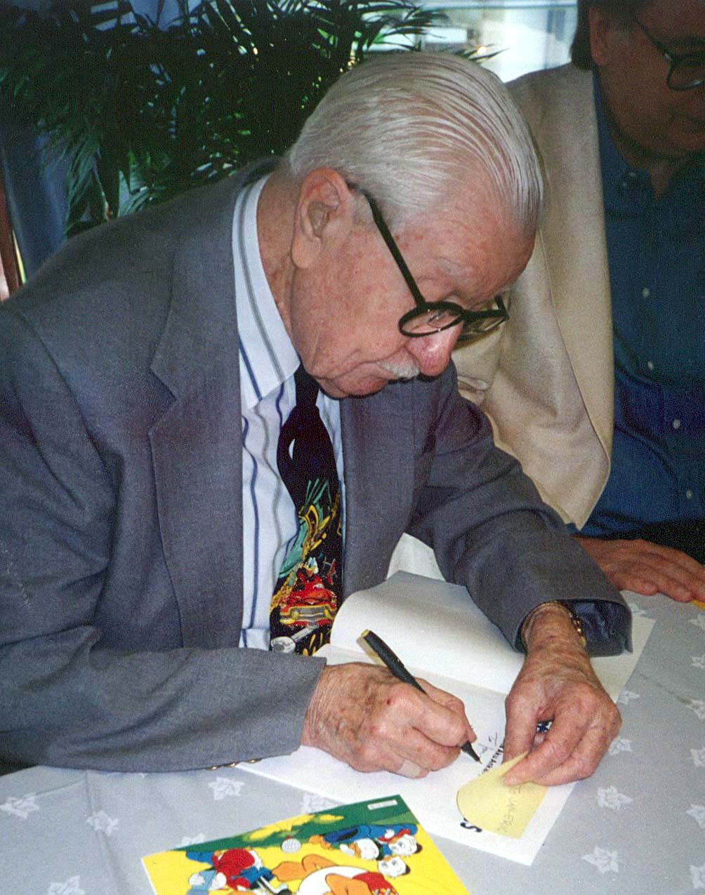 Carl Barks signing autographs in Finland in 1994. File history, please retain this information to prevent any author/copyright questions: Uploaded by Janke to English Wikipedia as File:CarlBarksFinland.jpg on 11 September 2006. Moved to Commons as File:CarlBarksFinland.jpg by Rosenzweig on 1 October 2006. Poorly photoshopped by Cornischong and uploaded to Luxembourgish Wikipedia on 2007-07-08. Poorly photoshopped version moved to Commons by MGA73bot2 on 9 September 2012 as File:Carl Barks a Finnland 94.jpg. File:CarlBarksFinland.jpg was deleted as duplicate of the poorly photoshopped version by Billinghurst on 10 March 2014. Upon request, the author uploaded a higher resolution scan to English Wikipedia on 20 August 2018 as File:Carl Barks signing autographs in Finland in 1994.jpg. The same day it was moved to Commons by Alexis Jazz as File:Carl Barks signing autographs in Finland in 1994.jpg (this file). depicted person: Carl Barks (age: 93)